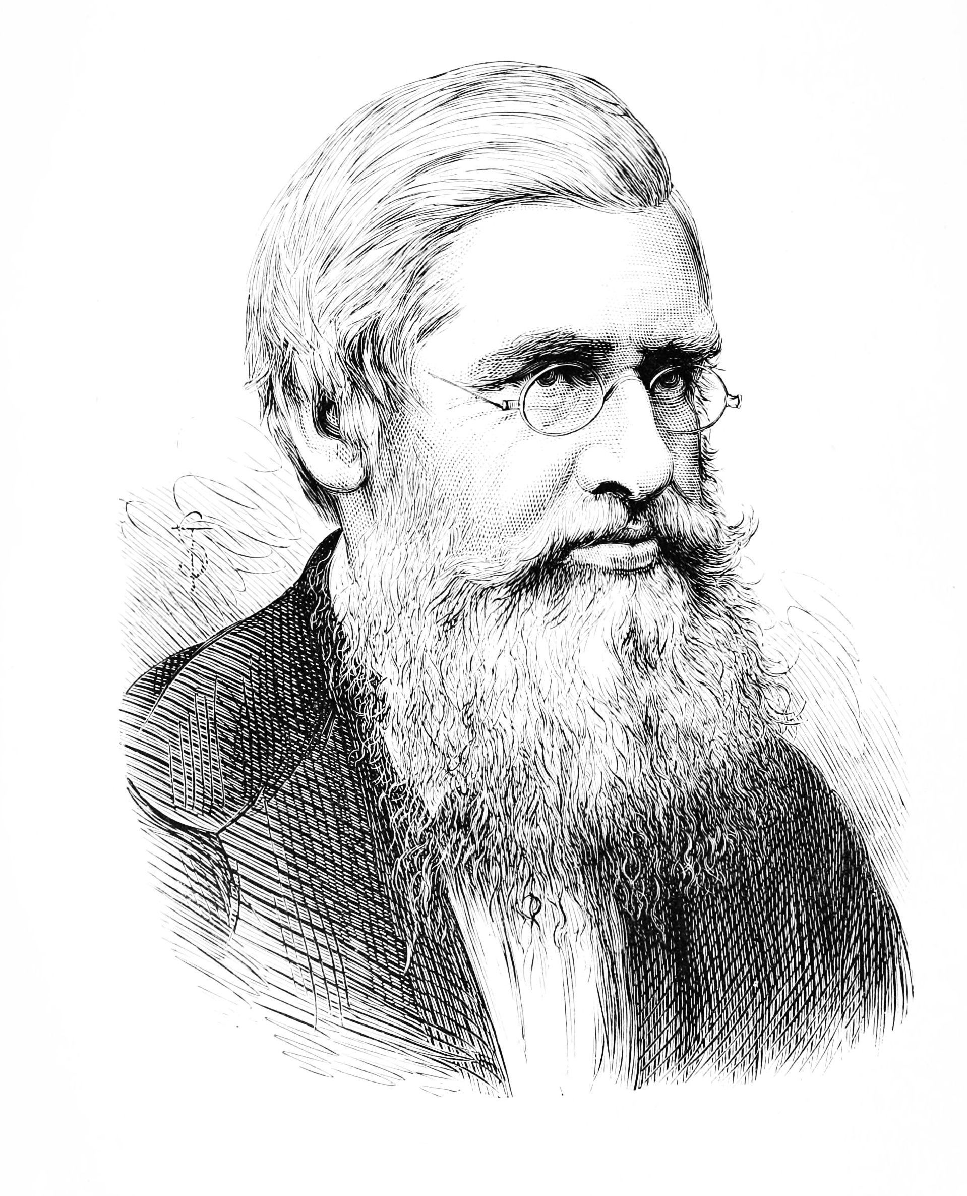 Alfred Russel Wallace